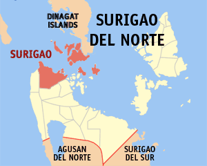 Map of the Surigao del Norte showing the location of Surigao City